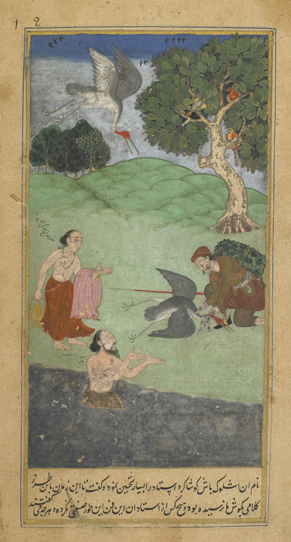 Folio from the Ramayana of Valmiki (The Freer Ramayana), Vol. 1, folio 6; recto: text; verso: A fowler kills a bird and the cry of its mate gives Valmiki the measures in which he composes the "Ramayana" 1597-1605 Mohan , (Indian, Mughal dynasty Opaque watercolor, ink, and gold on paper H: 27.5 W: 15.2 cm Northern India Gift of Charles Lang Freer F1907.271.6